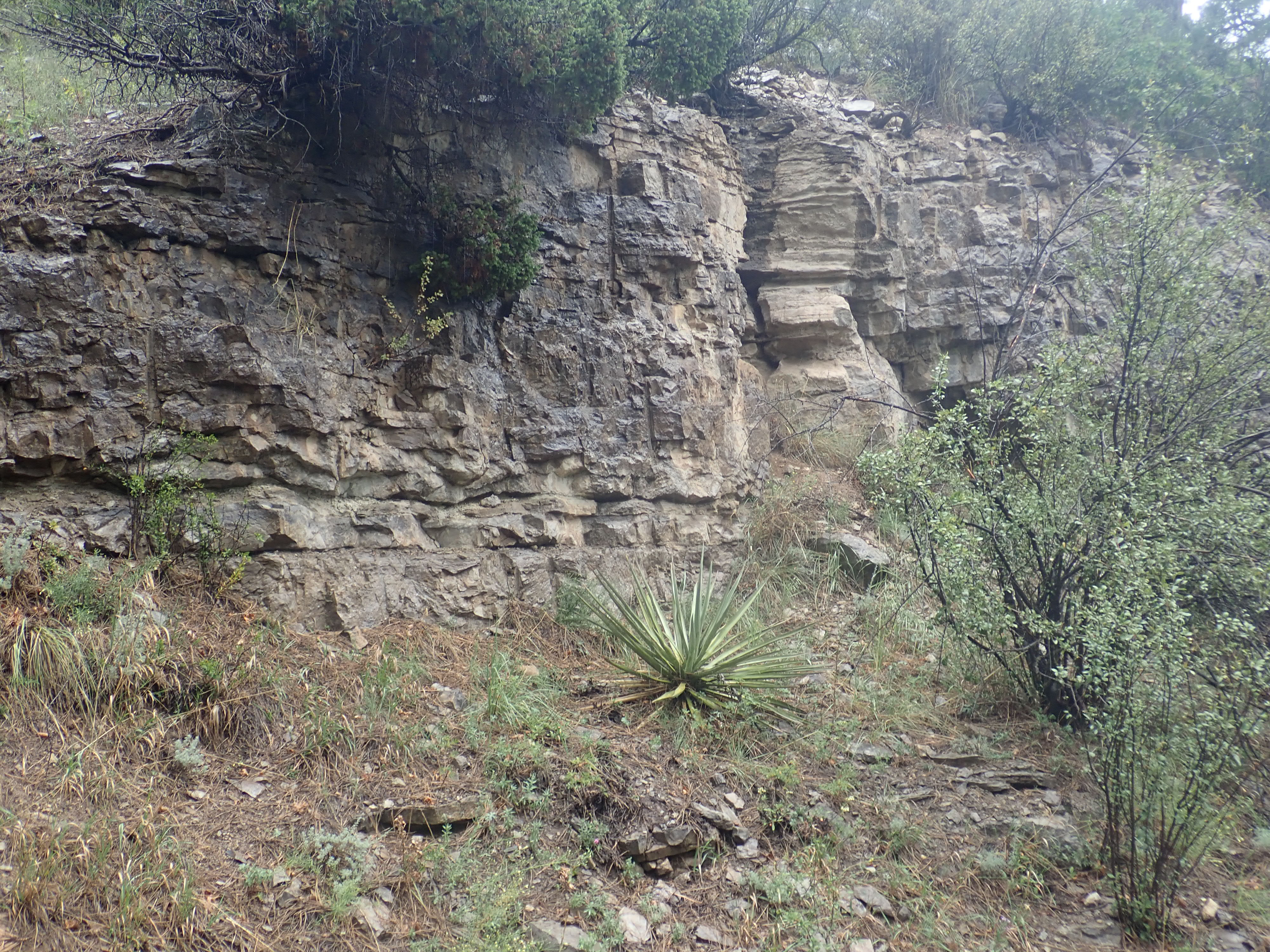 This image shows the Tererro Formation near its type section at Tererro, New Mexico, USA. The Tererro Formation is a Mississippian marine limestone.